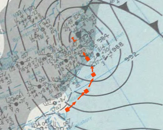 Surface weather analysis of a nor'easter on 27 December 1969.